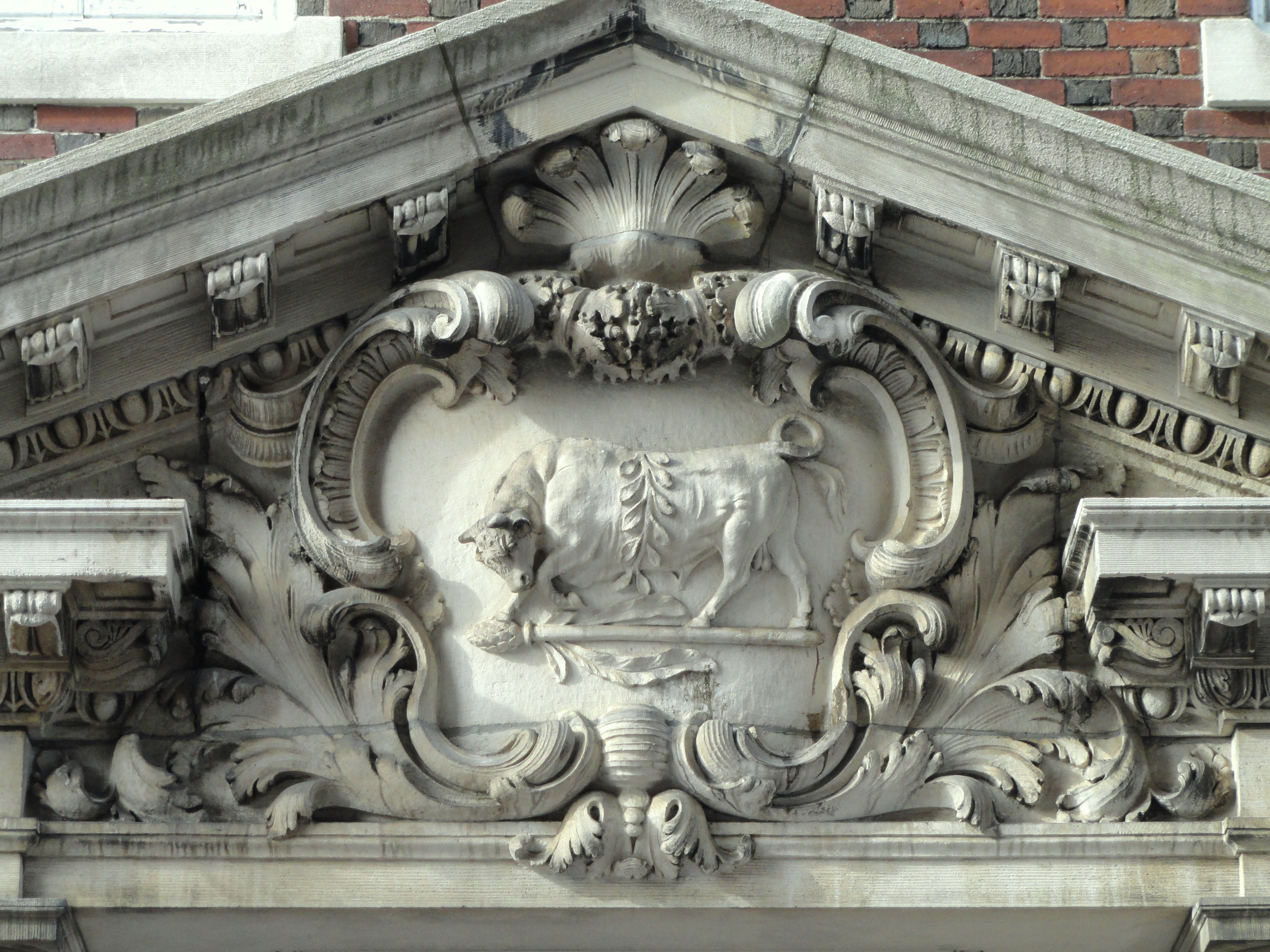 A.D. Club entryway detail - 1 Plympton Street, Cambridge, Massachusetts, USA.